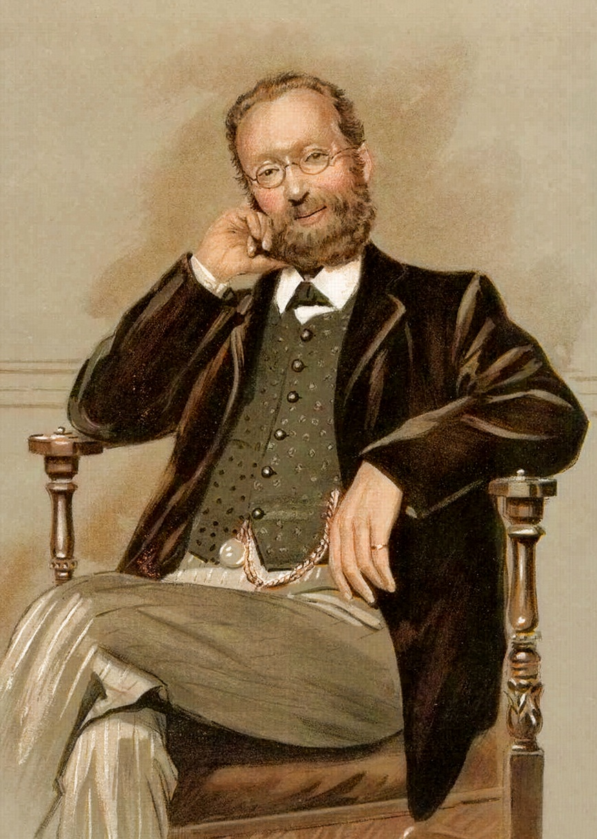 Caricature of Thomas Allinson. Caption read "Wholemeal Bread".